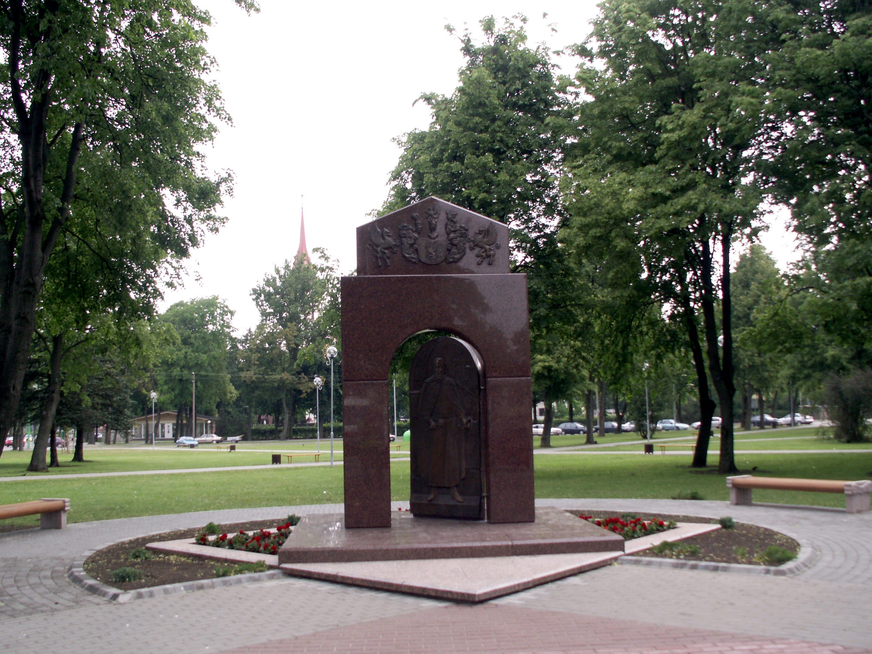 Monument of Jan Karol Chodkiewicz, Kretinga district, Lithuania